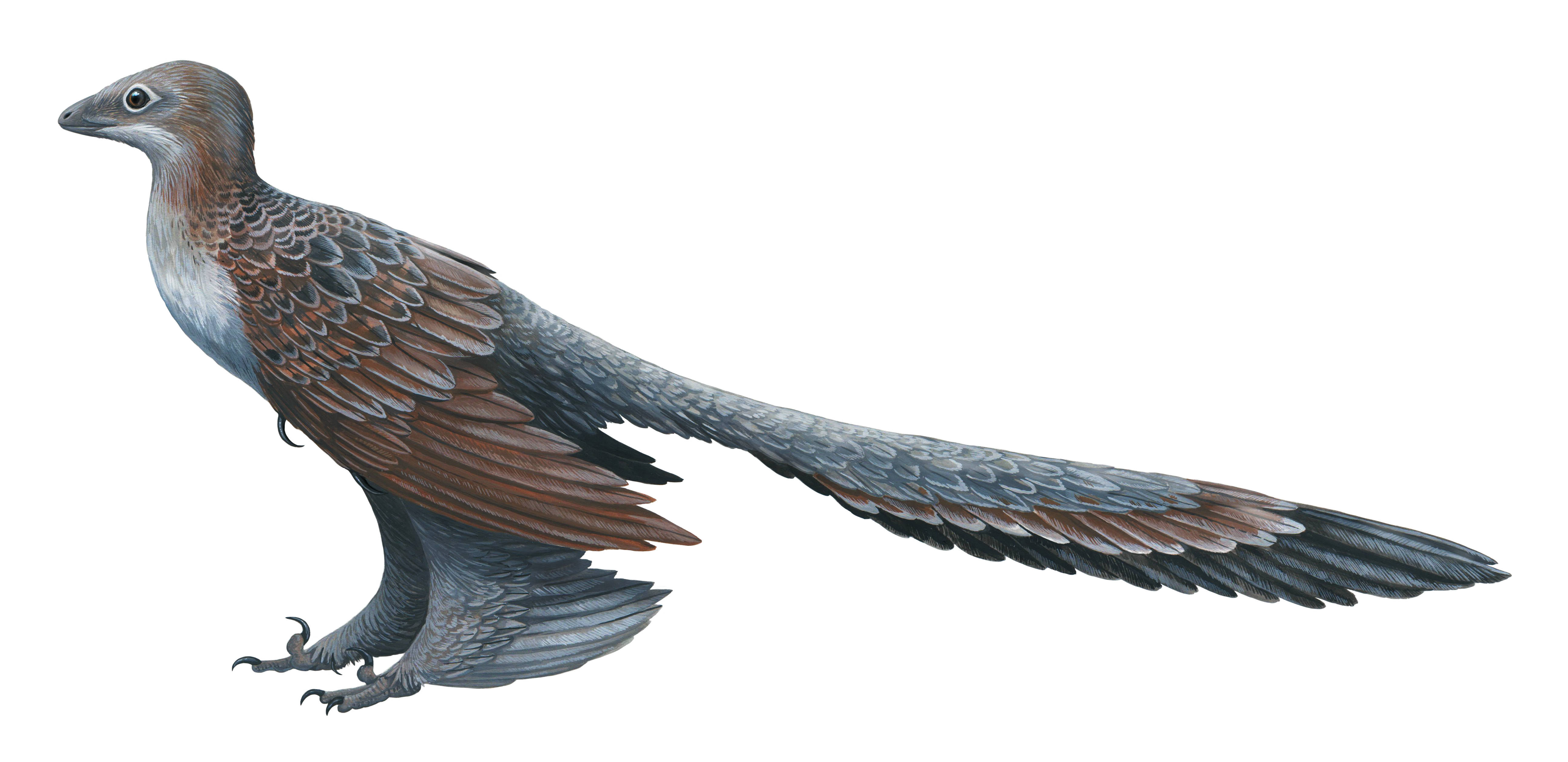 Reconstruction of the 2014 microraptorine dromaeosaur dinosaur, Changyuraptor yangi.